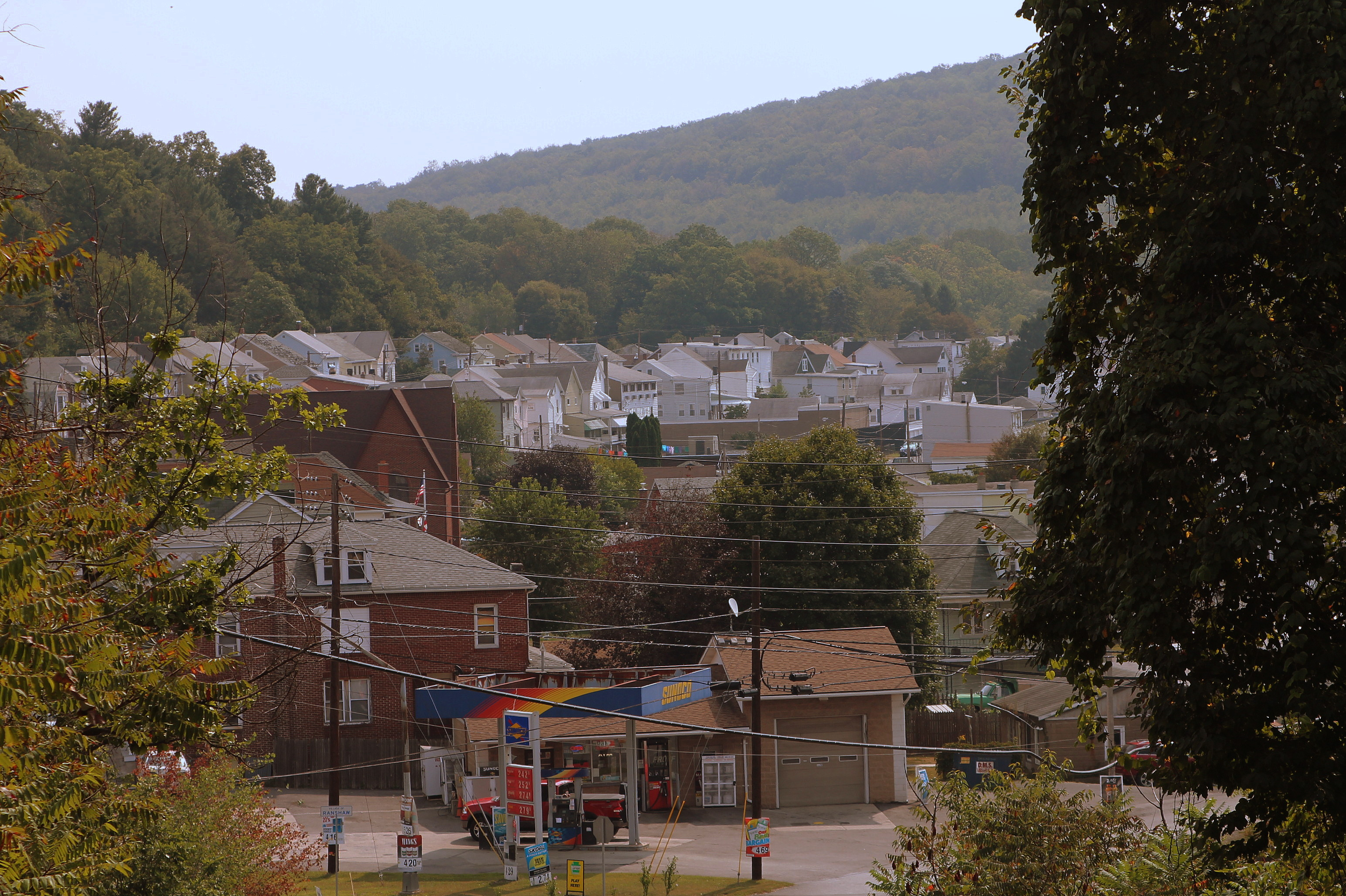 Ranshaw, Pennsylvania from the west